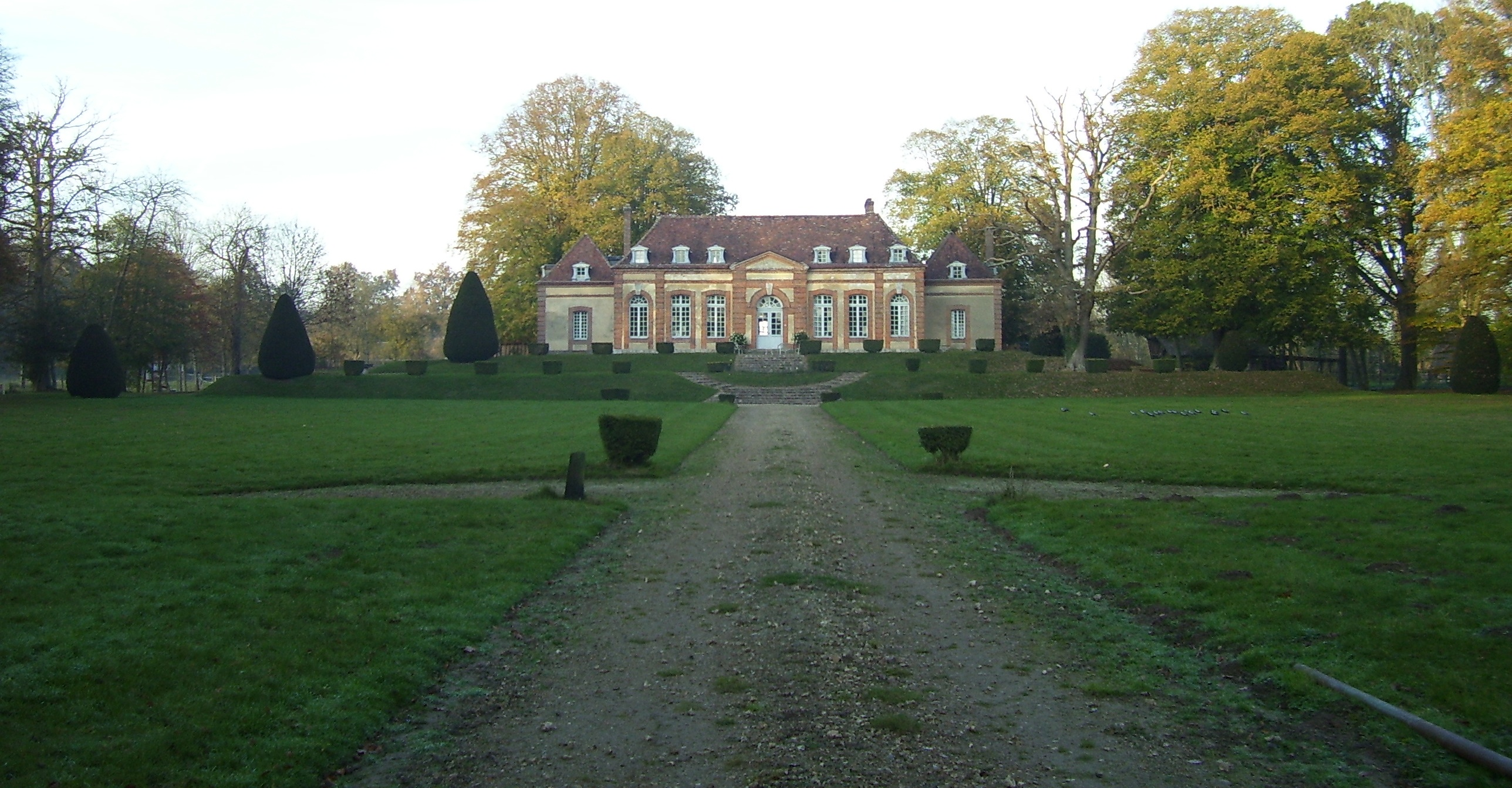 The "Petit" Castle (18th century) in Plasnes (Haute-Normandie, France), southern side.